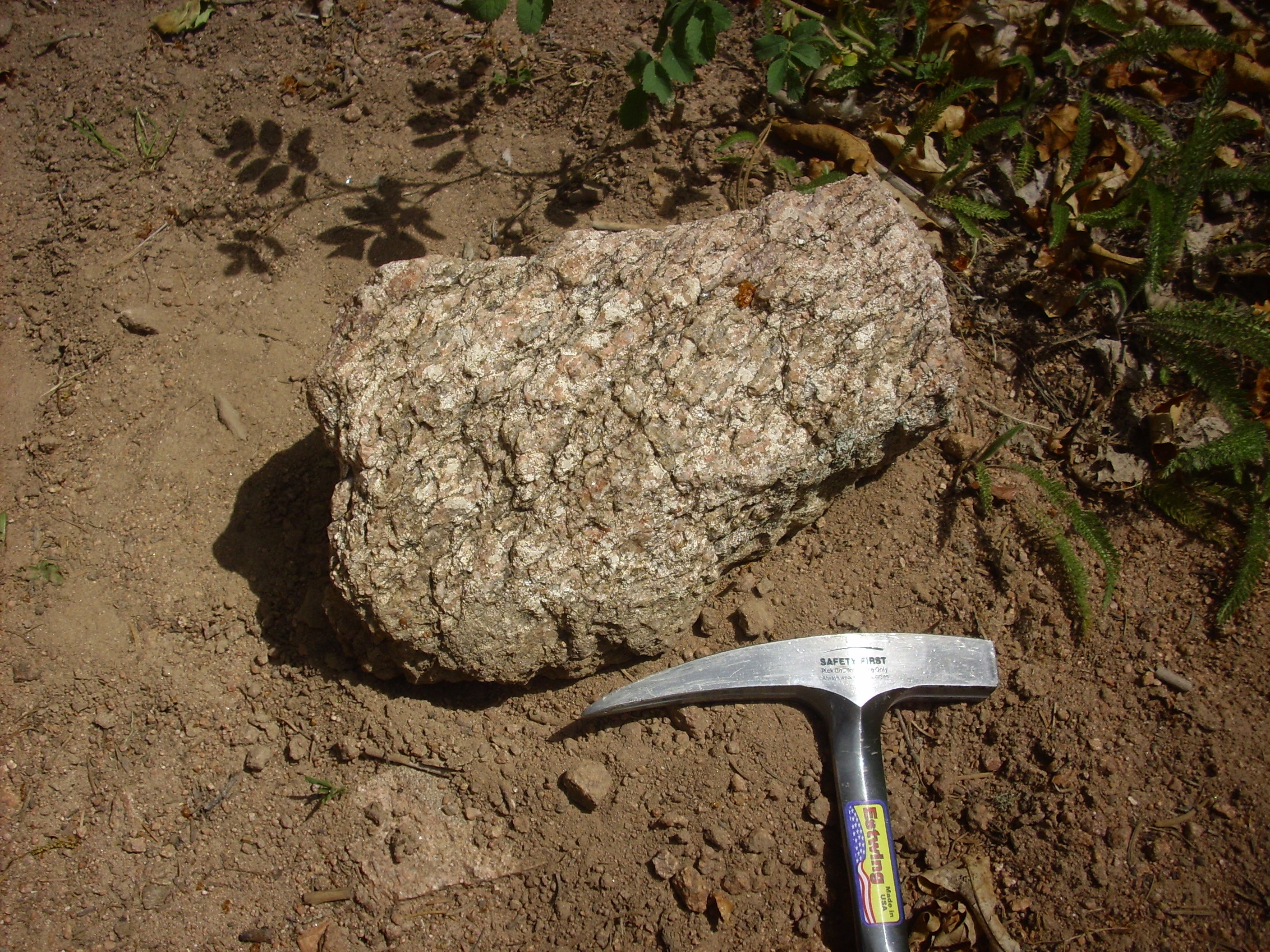 This image shows a sample of the San Miguel gneiss, Nacimimento Mountains, New Mexico, United States. This is a Paleoproterozoic gneiss likely emplaced as part of the Yavapai orogeny.